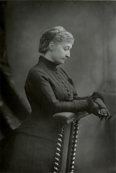 Eugenie, Empress of the French in 1880.